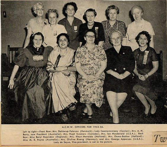 A.C.W.W. Officers for 1953-56. Left to right—Front Row; Mrs. Dahlerup-Peterson (Denmark); Lady Coomaraswamy (Ceylon); Mrs. A. M. Berry, new president (Australia); Mrs. Hugh Summers (Canada); Mrs. Ian Macdonald (U.S.A.). Back Row; Miss Beryl Hearnden (England); Mrs. Kleyn-Menalda (Holland); Mrs. Elema-Bakker (Holland); Miss M. E. Payne (Austrailia); Mrs. Olufine Riseng (Norway); and Mrs. George Apperson (U.S.A.). The A.C.W.W. (Associated Country Women of the World) are women who live in rural and urban areas, representatives of many races, nationalities and creeds, believe that peace and progress can best be advanced by friendship and understanding through communication and working together to improve the quality of life for all people